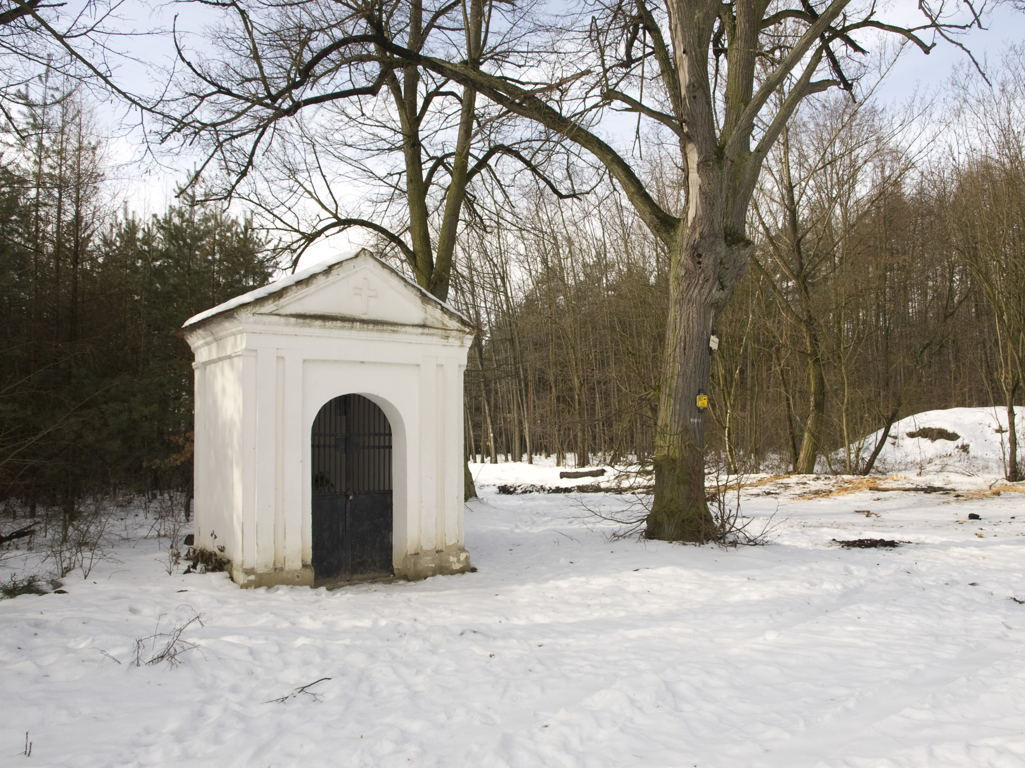 Saint Mary Chapel near Stračí, Ústí nad Labem Region